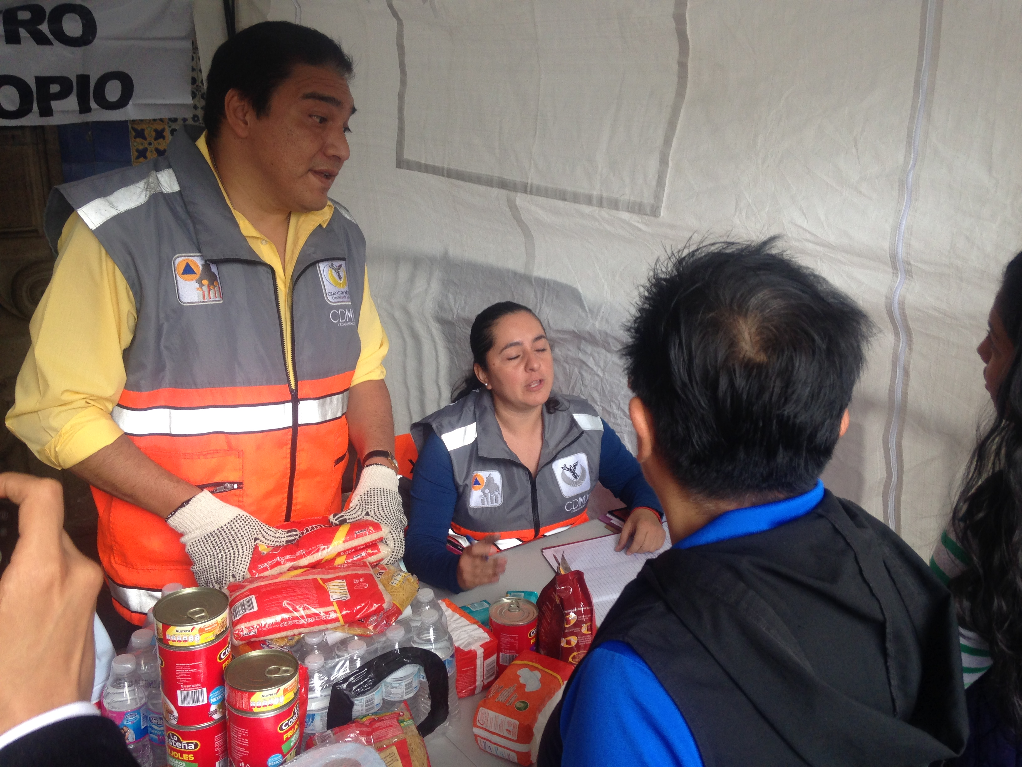 Collection Center for the victims of the Earthquake of Chiapas, 2017